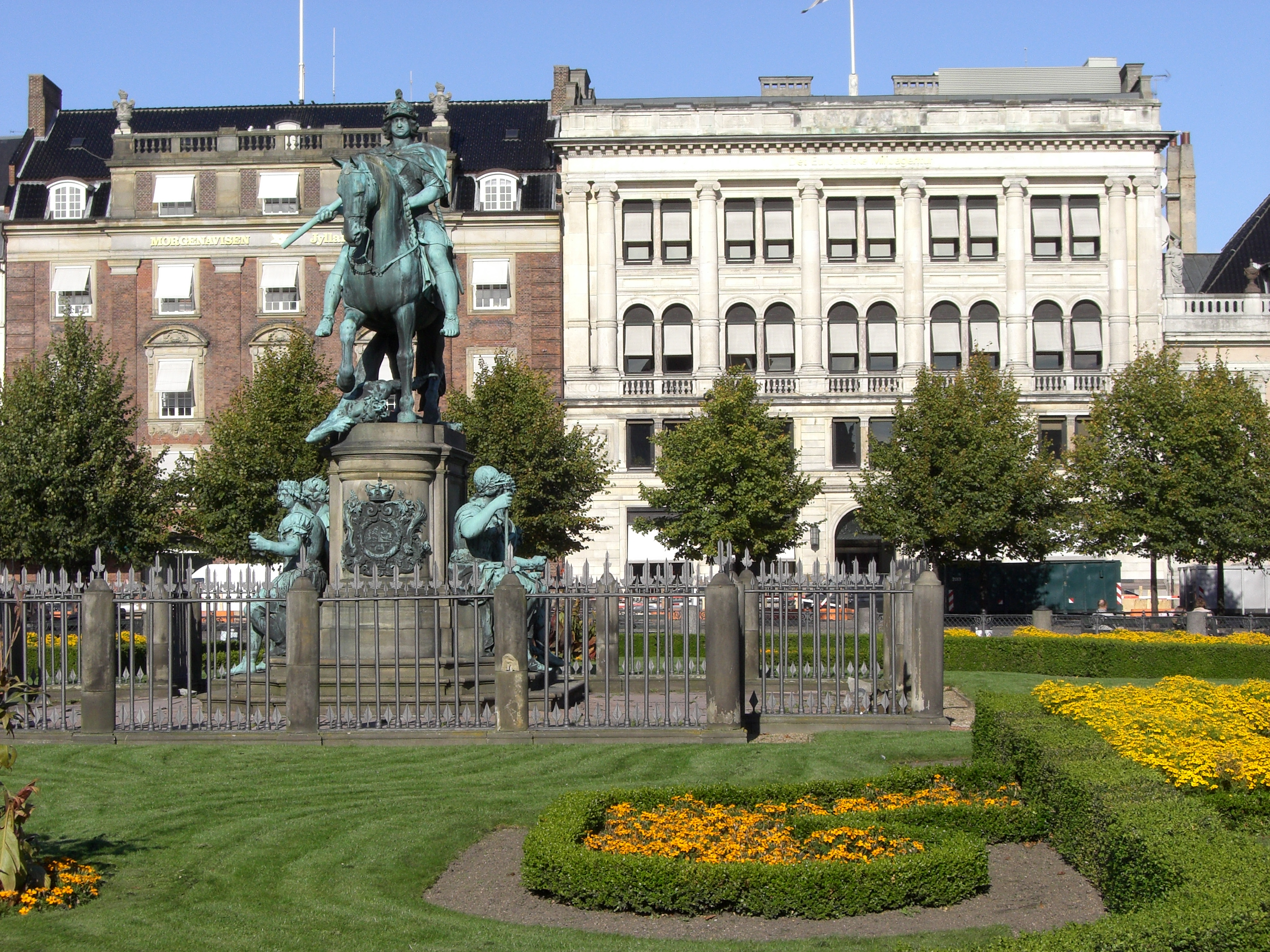 The equestrian statue of King Christian V on Kongens Nytorv in Copenhagen, Denmark